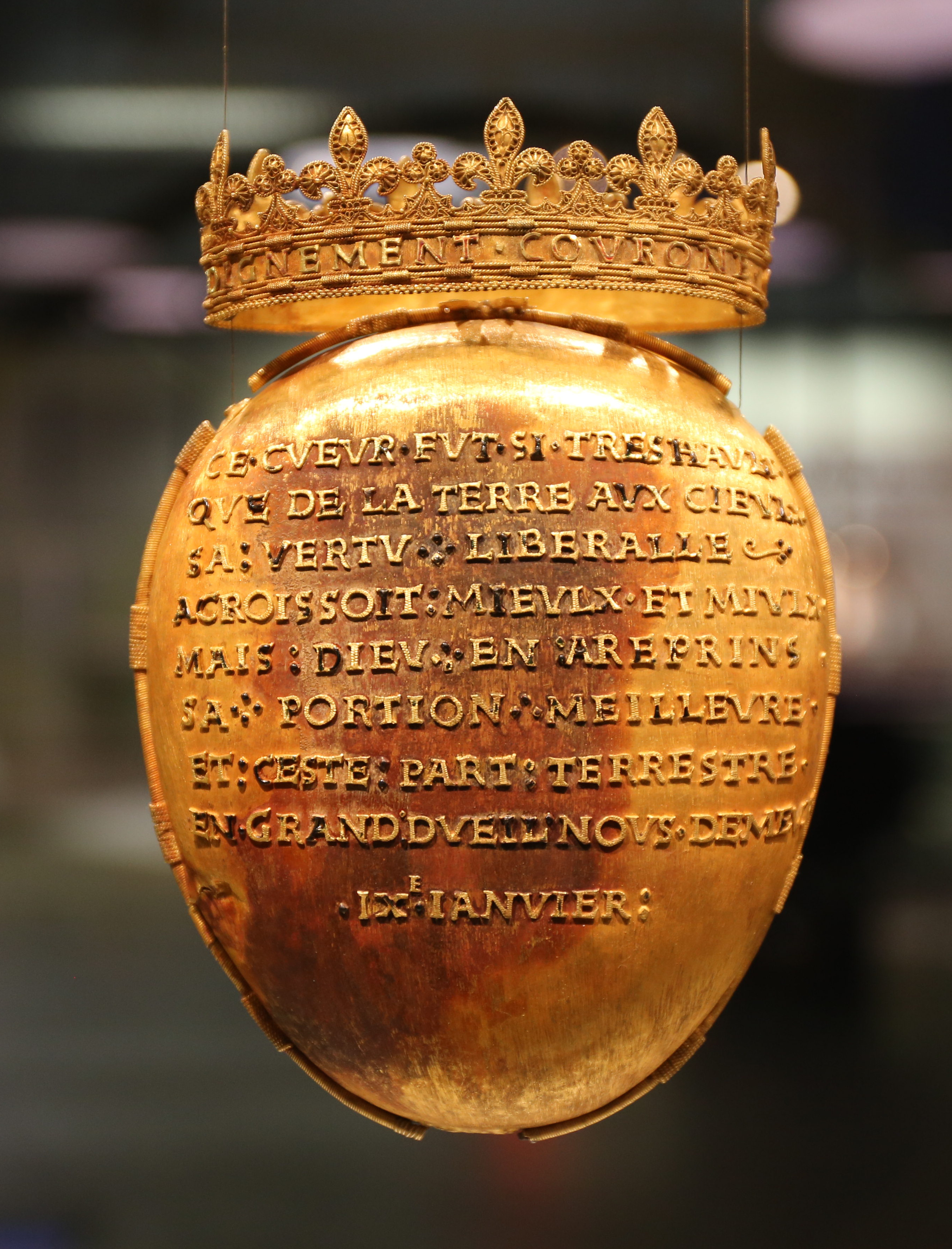 Cardiotaph of Anne of Brittany exposed in the Musée de Bretagne, Rennes.